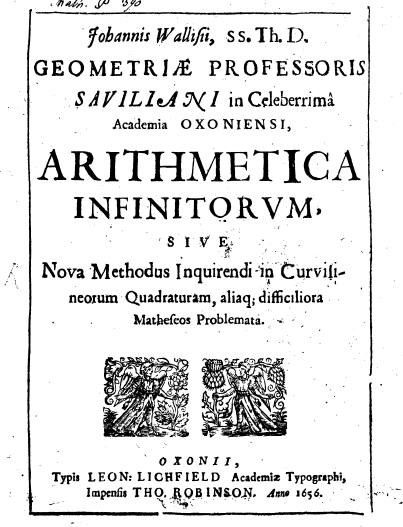 First page of the John Wallis's book Arithmetica Infinitorum (1656)